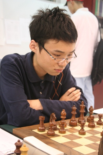 Yu Yangyi